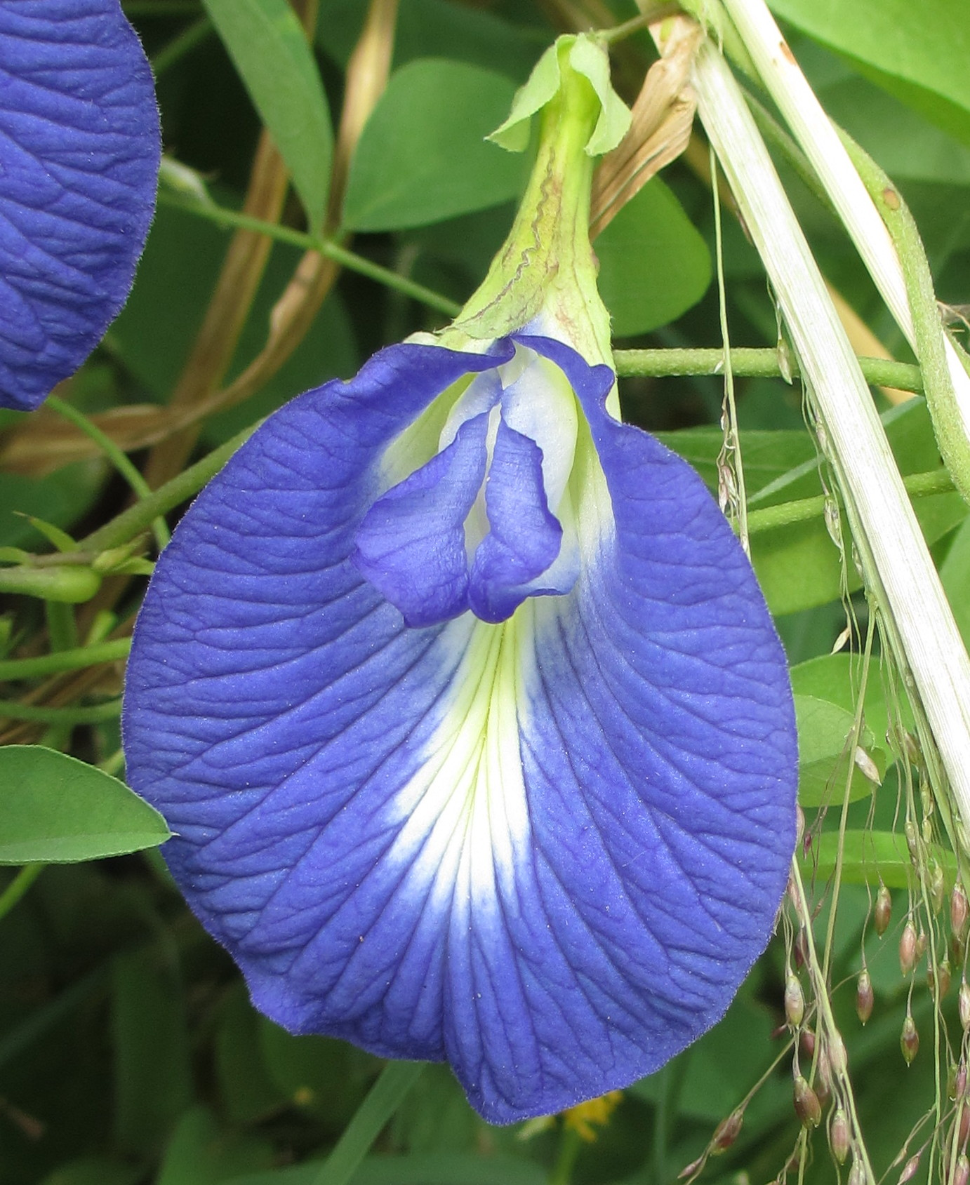 The plant behaves like a weed in Pemba town (northern Mozambique).